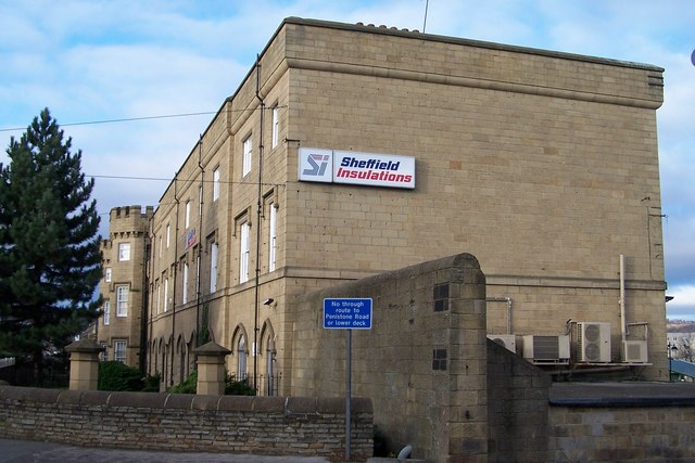 Sheffield Insulations, Hillsborough Barracks, Sheffield A superb building built in 1848, now preserved and used everyday over 150 years later ... and the staff can 'pop out' and do their shopping at lunchtime!